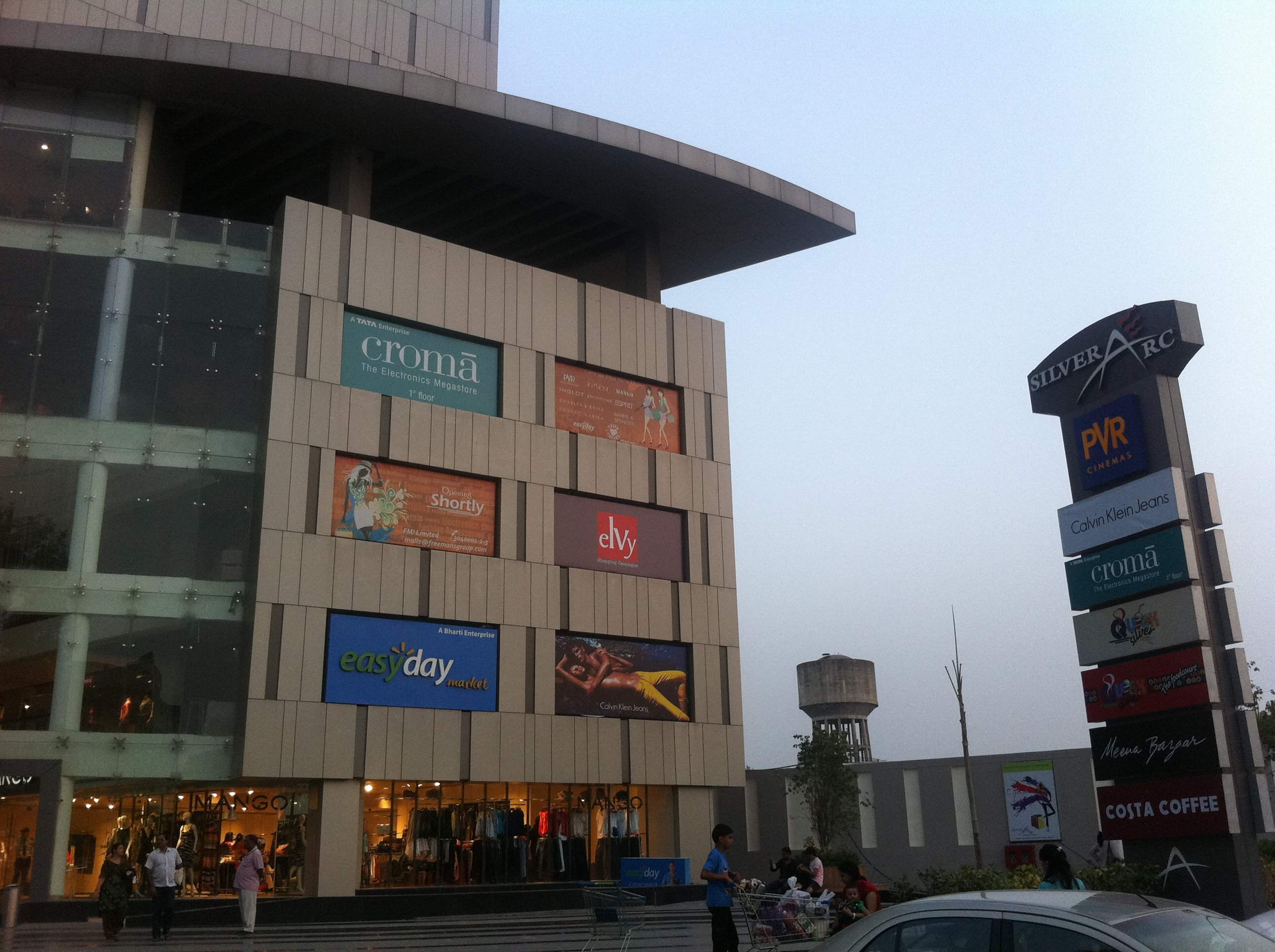 This is the second PVR cinema in ludhiana city in Punjab